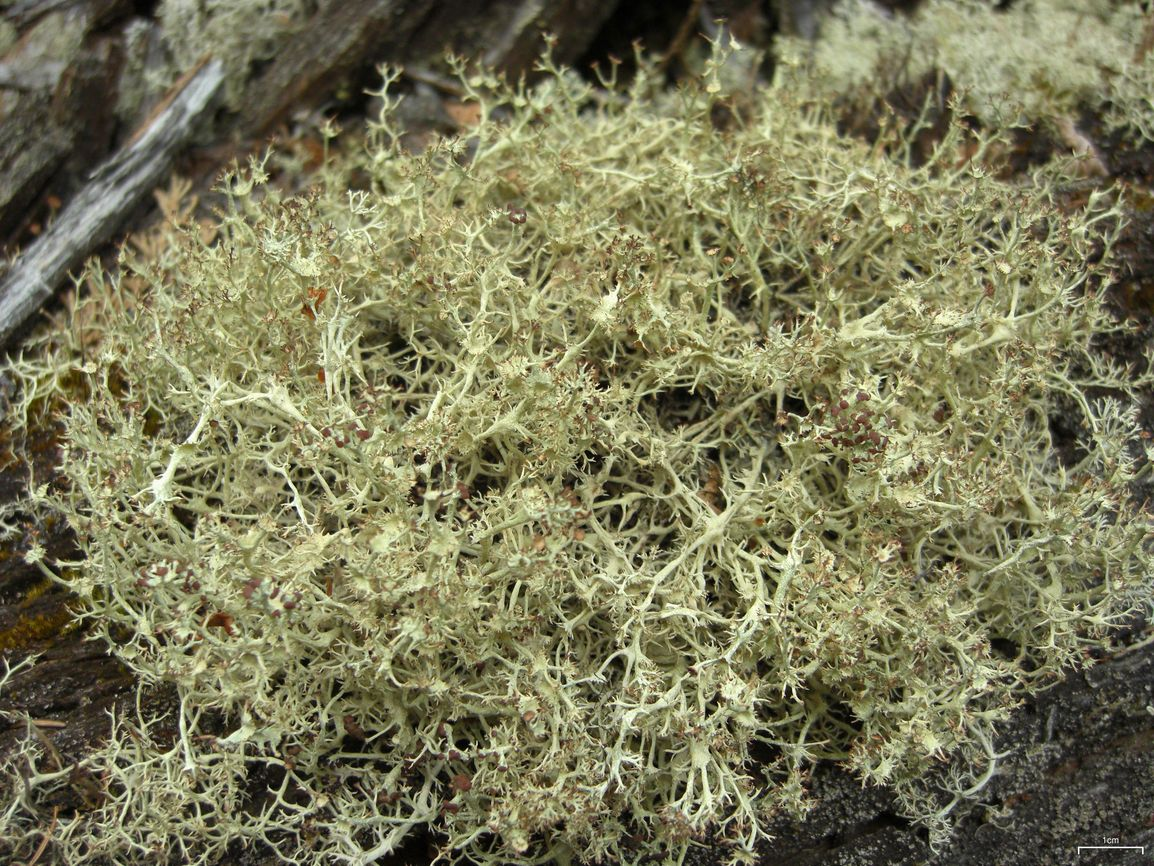 Cladonia amaurocraea (Florke) Schaerer 20090616.24 Wells Gray Park, BC Another one found in pseudo-arctic microhabitats, such as talus slopes below glaciers or in deep canyons.